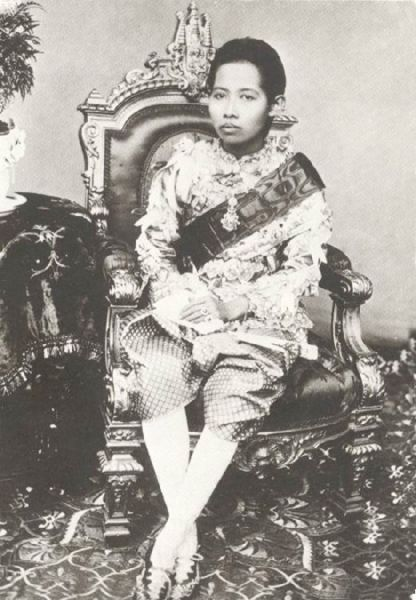 Her Majesty Queen Savang Vadhana, Royal consort of His Majesty King Chulalongkorn